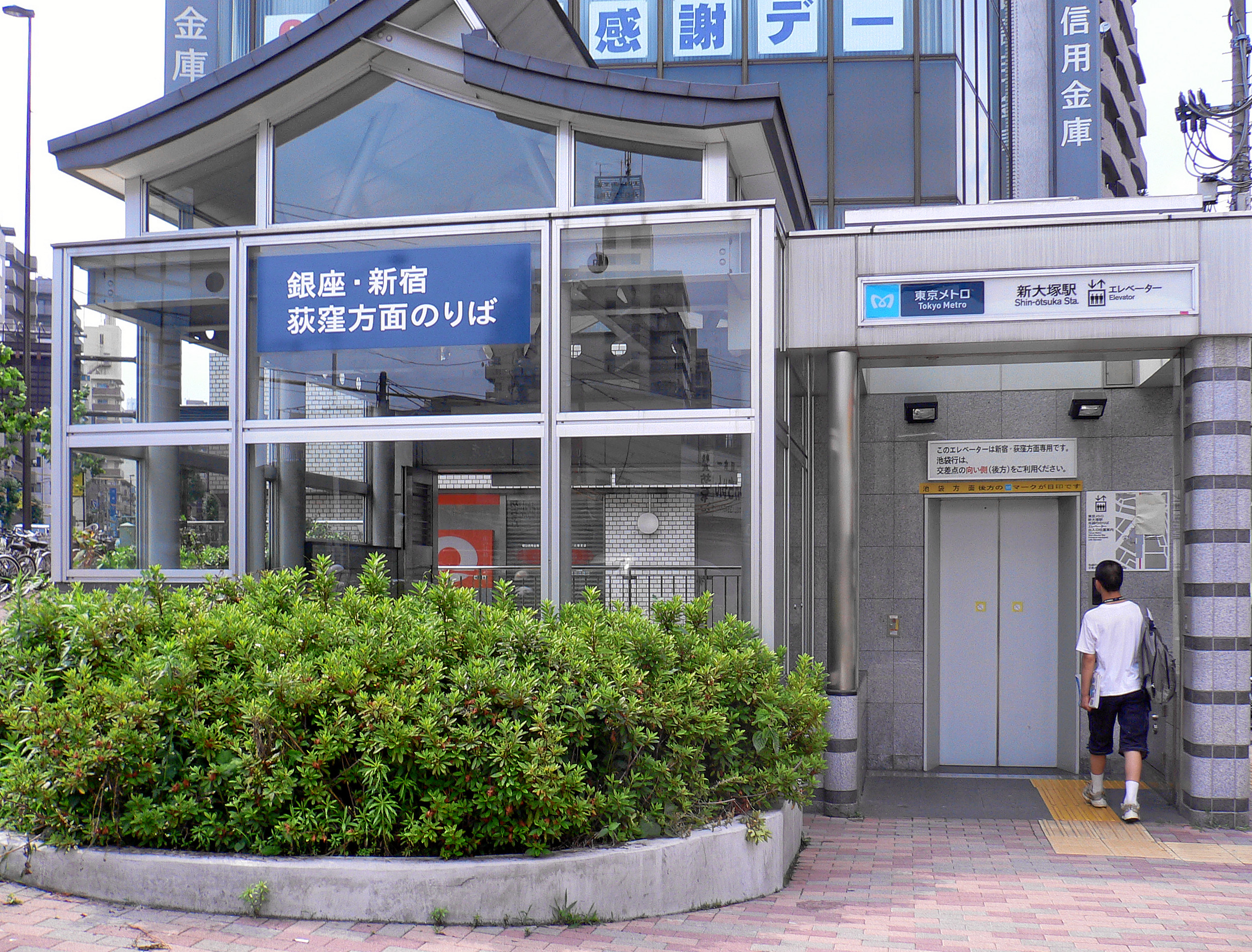 Shin-Otsuka Station(新大塚駅),Bunkyo W, Tokyo M.